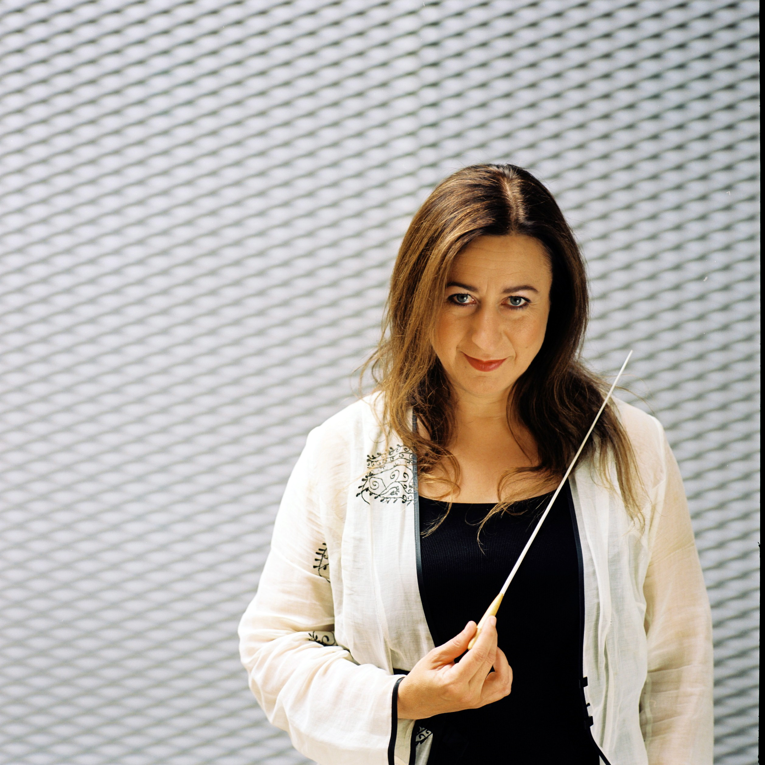 Portrait of the conductor Simone Young, taken in 2007 on behalf of the Hamburg State Opera, which is led by Simone Young.